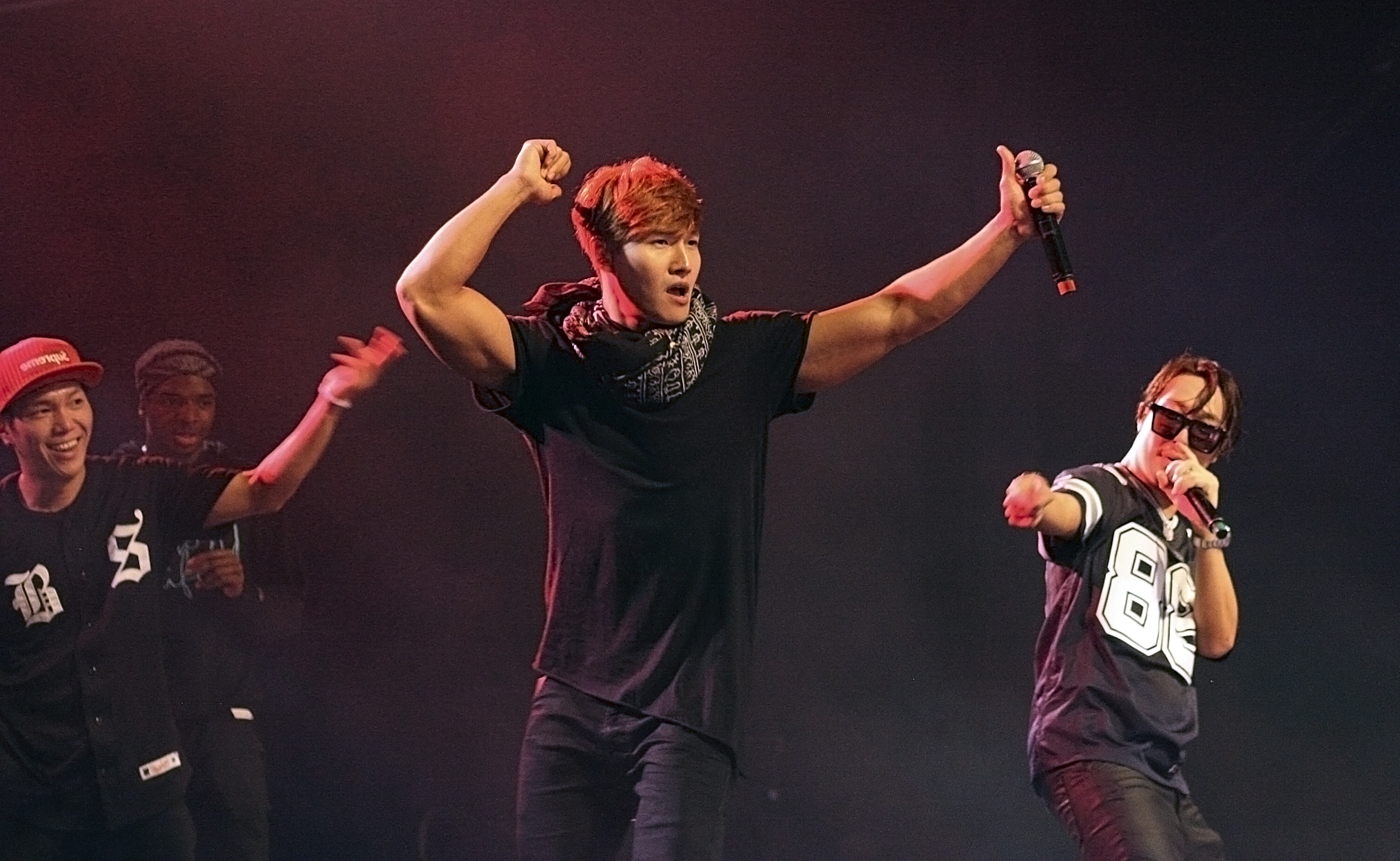 Running Man Brothers, Kim Jong-kook and Haha on stage, Running Man Bros US Tour 2014, Dallas